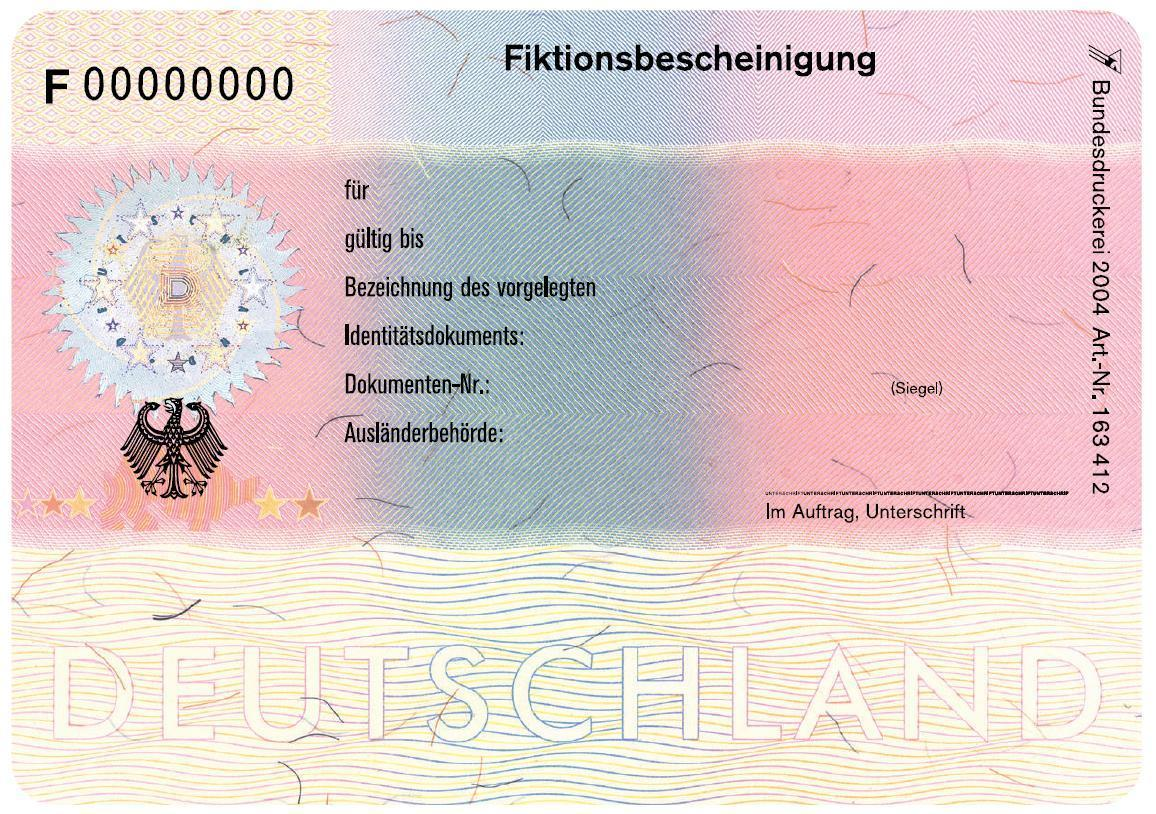 Fiktionsbescheinigung (sticker) on a temporary right of residence of foreigners in Germany